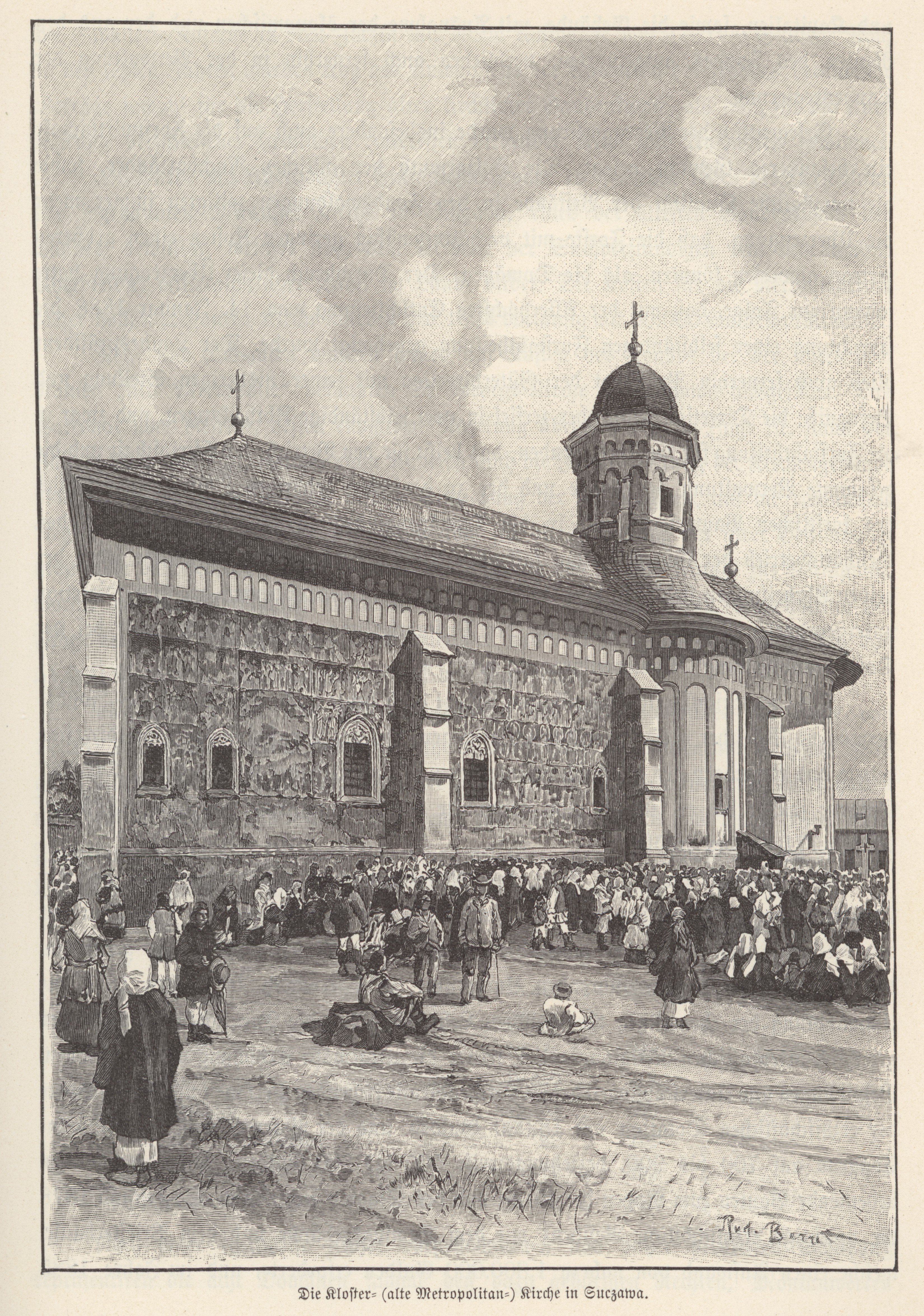 St. John the New Monastery in Suceava - St. George Church (xylography by Rudolf Bernt, 1899).